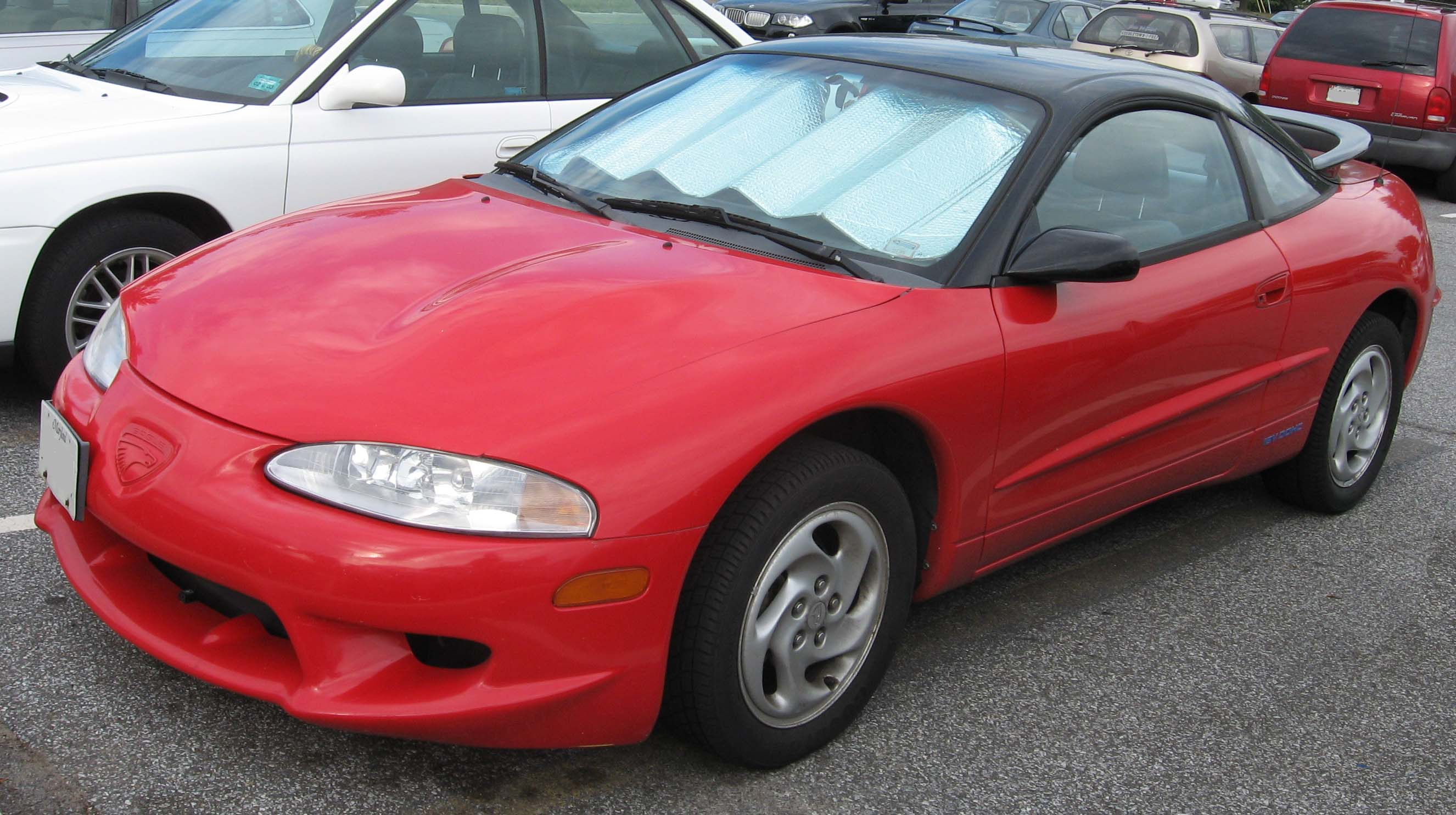 1997-1998 Eagle Talon photographed in USA.